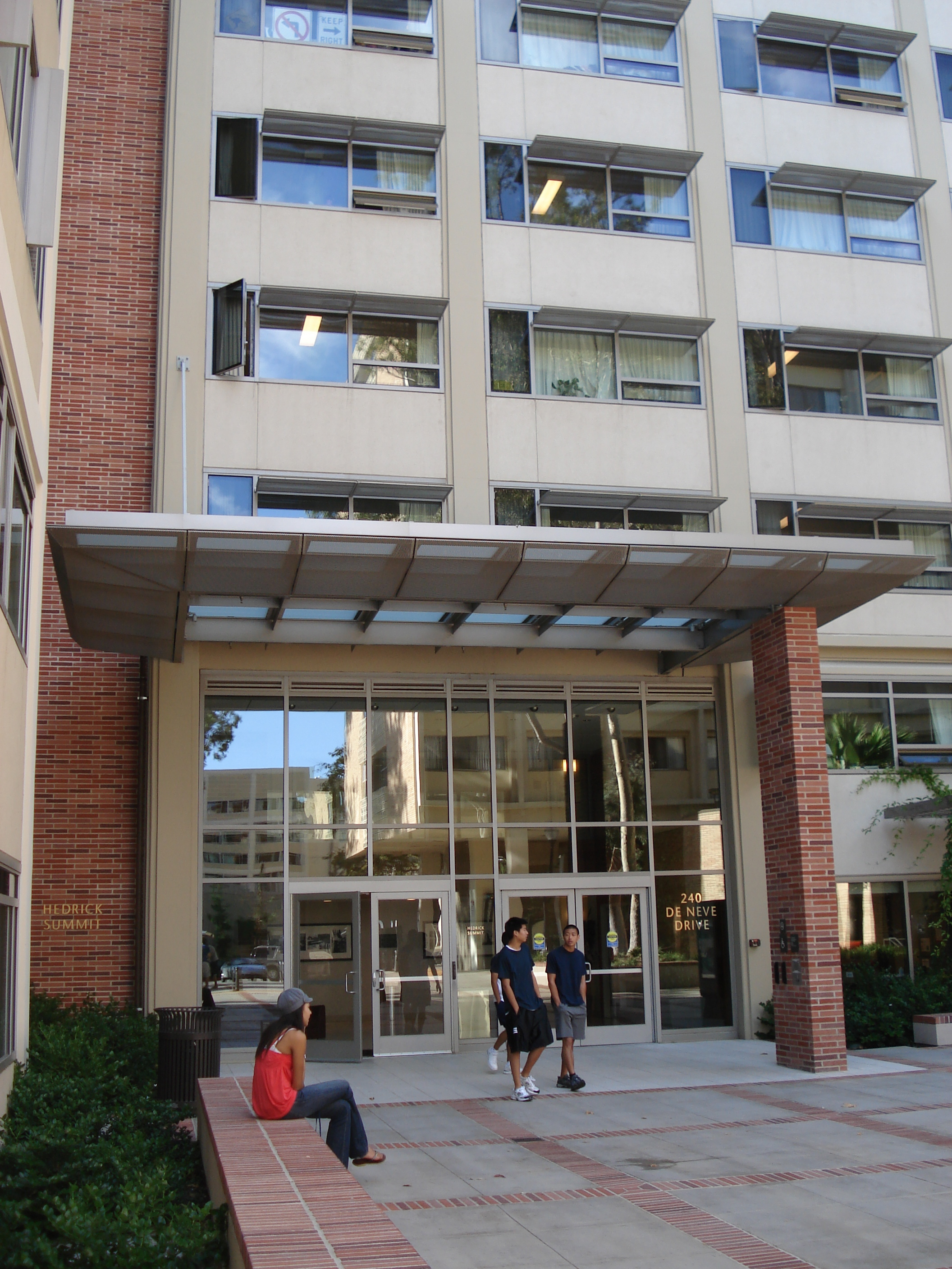 Hedrick Summit, built in 2005, a residence plaza at UCLA